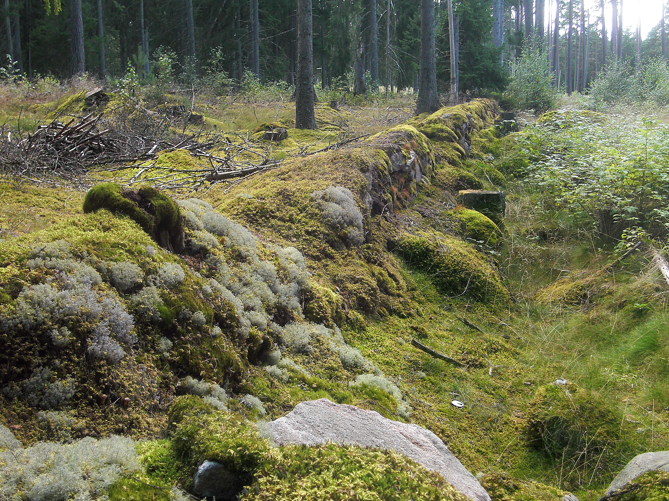 A ditched fence (Sw. "gropavall") from the border between the farms Hendesestorp and Kårholmen in Trävattna parish, Vilske hundred, Falköping Municipality, former Skaraborg county, Västergötland, Västra Götaland county, Sweden. A ditched fence consists of a ditch and an earth wall, sometimes reinforced by stones. The wall can be seen to the left, the reinforcing stones in the middle, and the ditch to the right. To the left on the domains of Hendenestorp there is sprucewood (Picea abies), and to the right on the domains of Kårholmen there is firwood (Pinus sylvestris).